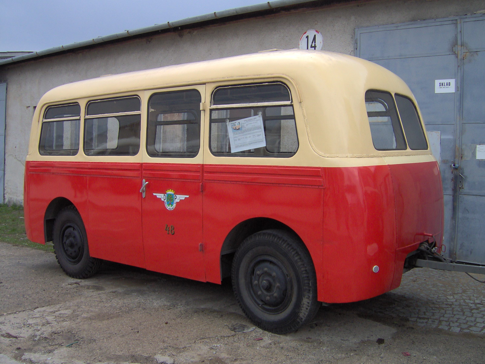 Historical Karosa B 40 trailer in Brno